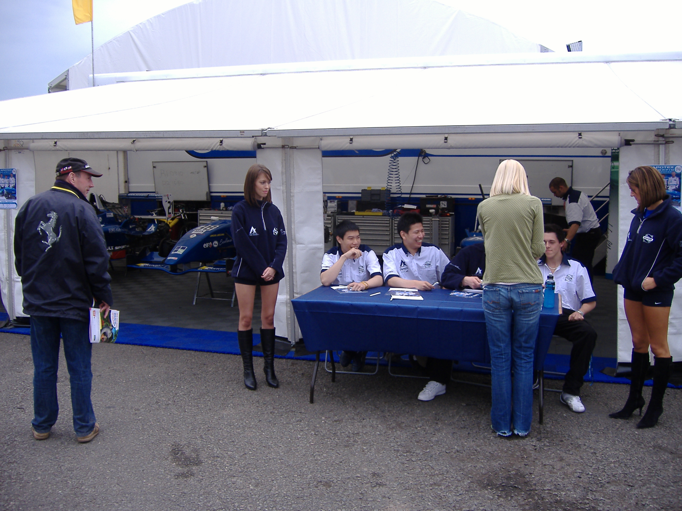 The Formula Renault UK cars of team Apotex Scorpio Motorsport's drivers Josh Scott, Sho Hawana, and Kieran Clark sit in their garage at Donington Park, while the drivers sign autographs.